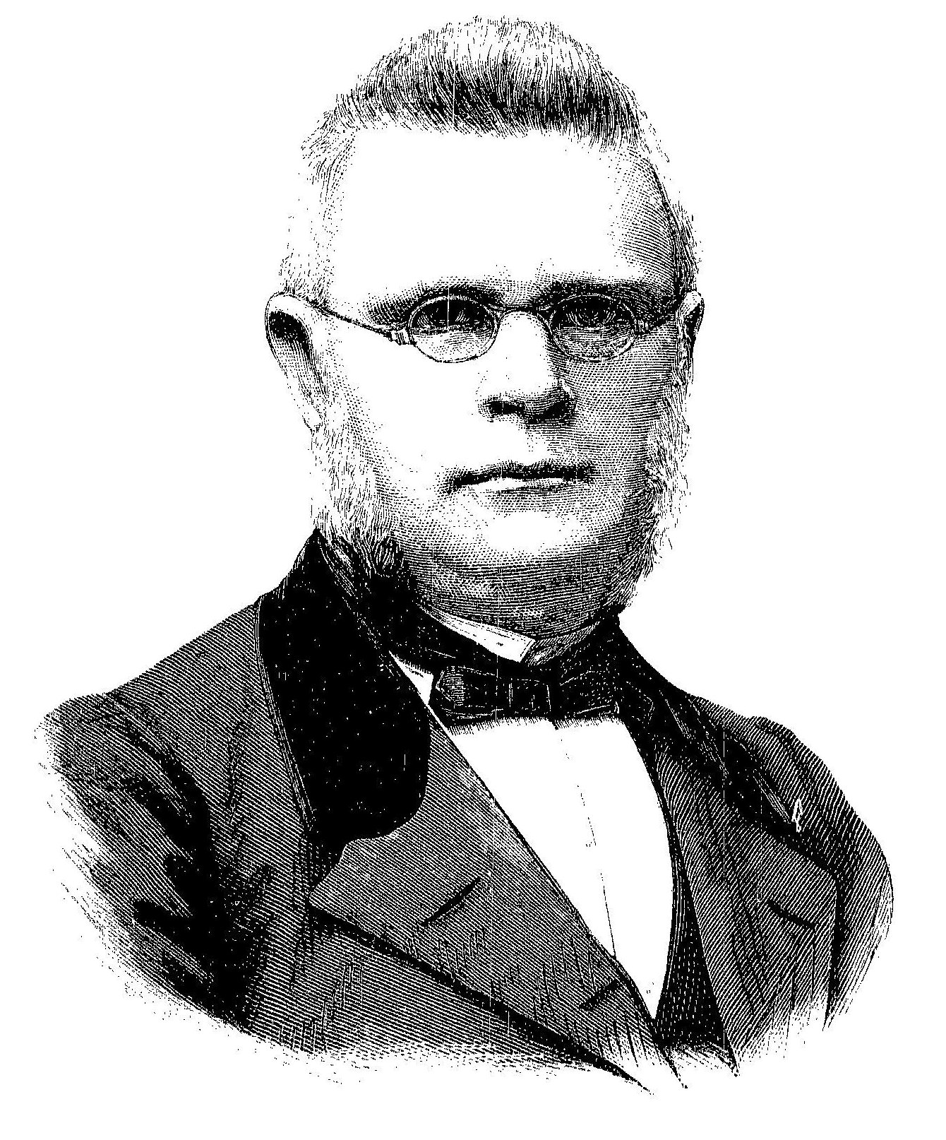 Henryk Fryderyk Hoyer (1834-1907), Polish histologist and embryologist